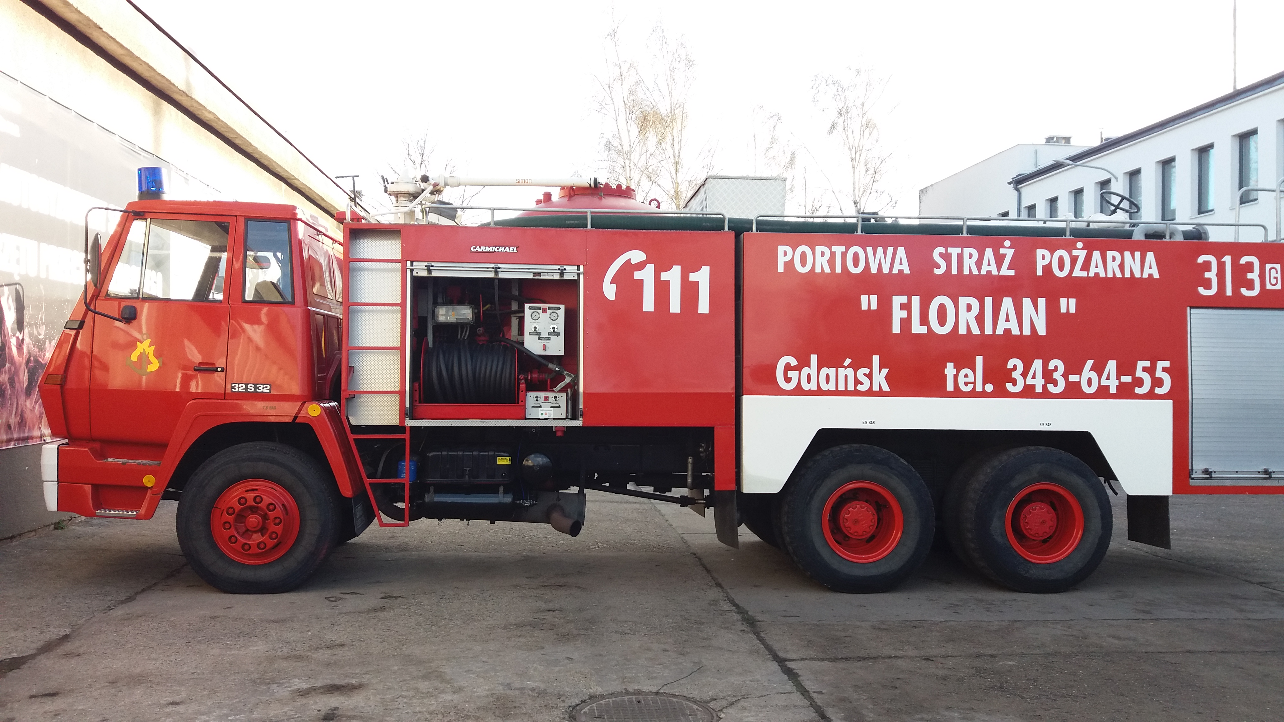 Heavy fire truck Steyr 32 S 32 "Florian" Port Fire Department, Gdańsk